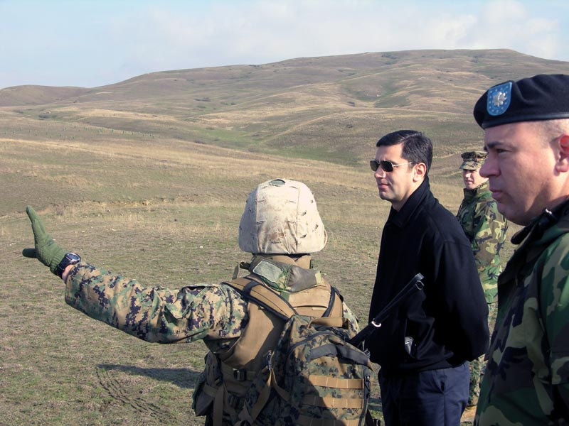 Irakli Okruashvili attends a "live fire" exercise at the Vaziani military complex. A Marine with the U.S. SSOP Task Force explains the mechanics of the live fire exercise to then Defense Minister